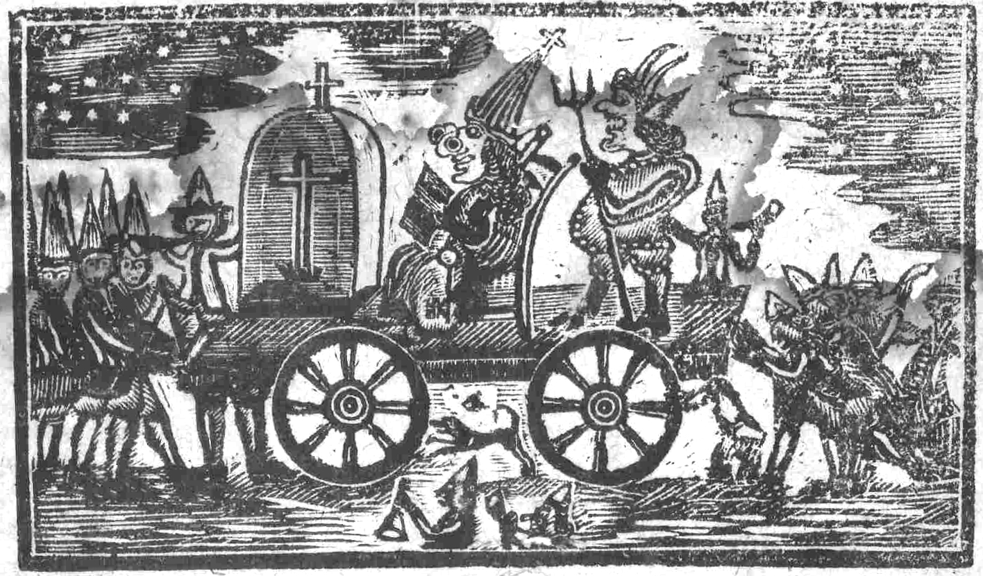 Detail from a 1768 broadside depicting Pope Night in Boston.